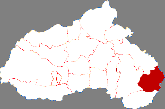 Location of Qinghe county in Xingtai City, China